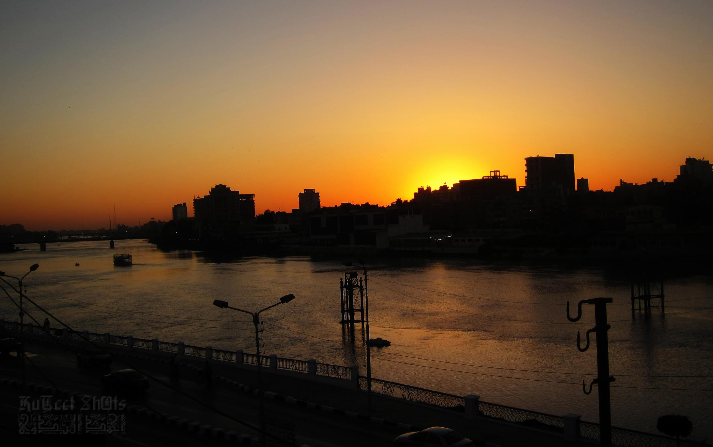 El Mansoura (Arabic: المنصورة, al-manṣūrah) is a city in Egypt, with a population of 420,000. It is the capital of the Dakahlia Governorate. Mansoura lies on the east bank of the Damietta branch of the Nile, in the Delta region. Mansoura is about 120 km northeast of Cairo. Across from the city, on the opposite bank of the Nile, is the town of Talkha. Mansoura and Talkha together form a metropolitan city. More.